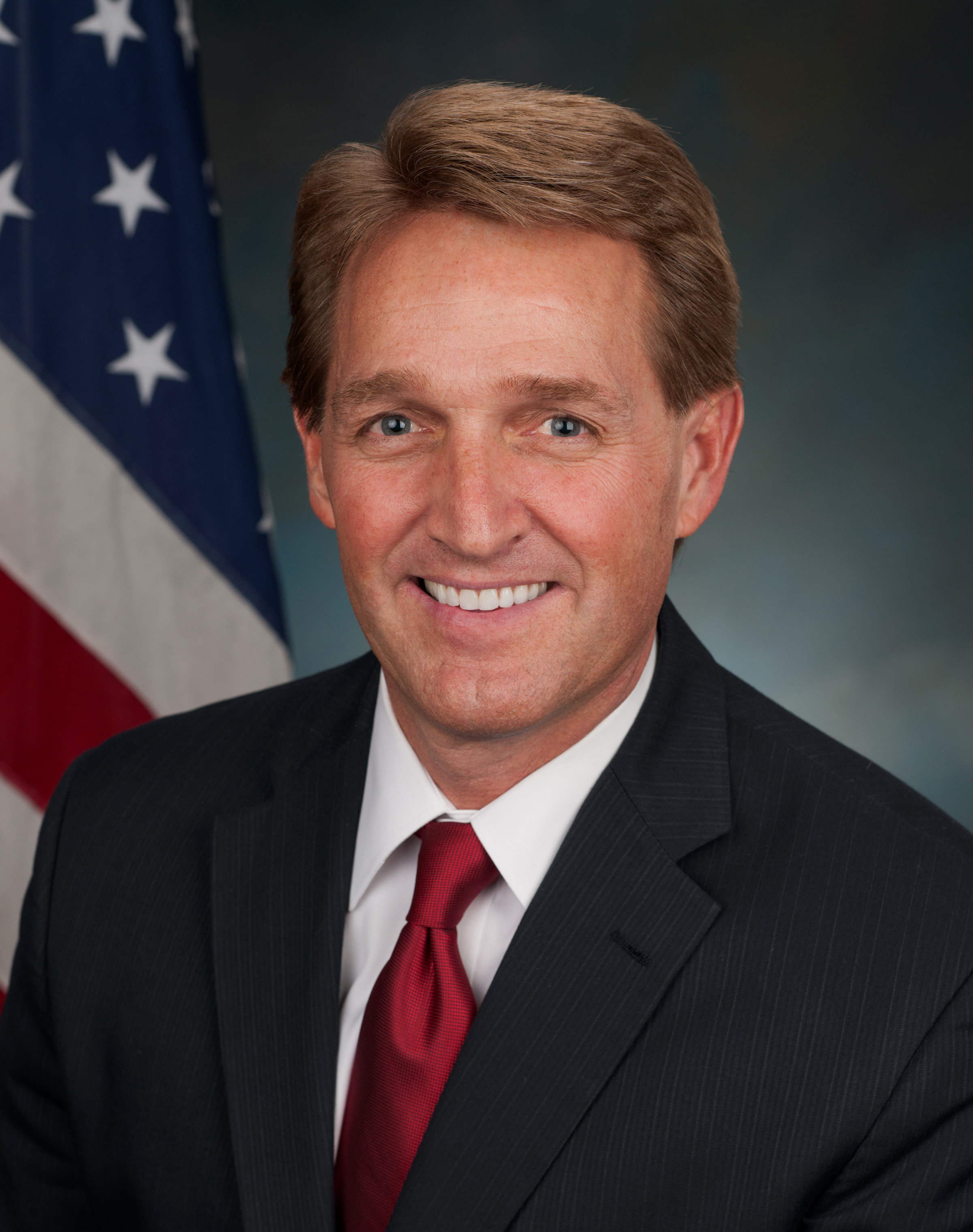 Official portrait of U.S. Senator Jeff Flake (R-AZ).